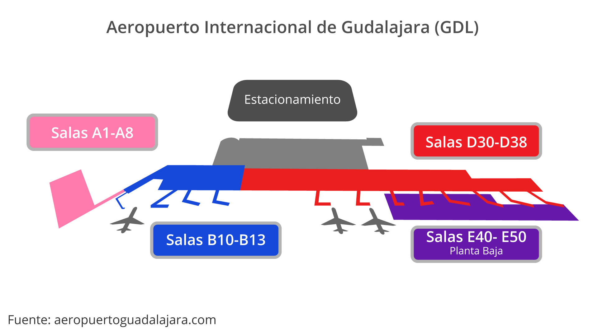 Guadalajara's Airport Terminal Map including the location of concourses and boarding gates.